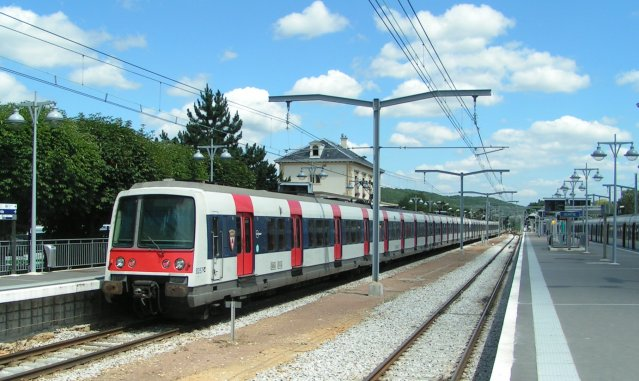 A train of type MI79 at the station Saint-Rémy-lès-Chevreuse (line B)